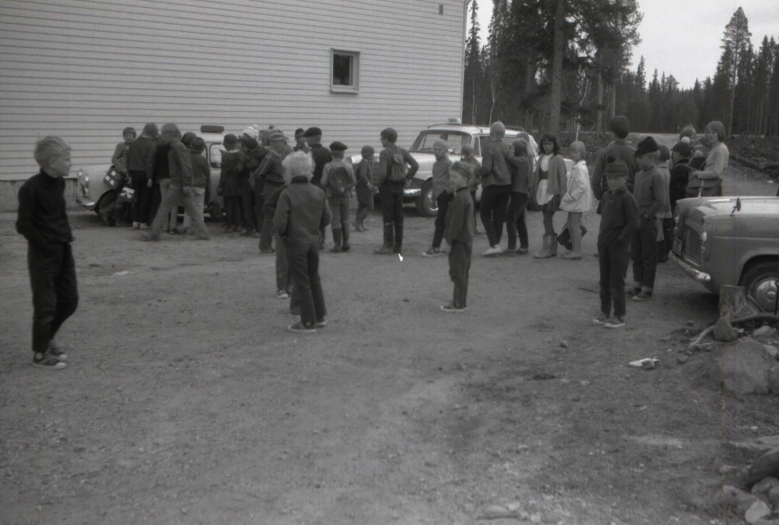 Children waiting for taxi to go home from Pesiönlahti school, Suomussalmi, Finland, year 1968 ?